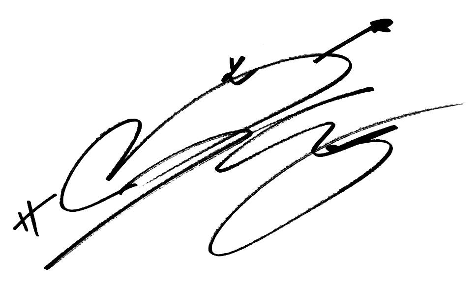 Signature of Kim Jong-woon, better known by his stage name Yesung, a South Korean singer and actor.